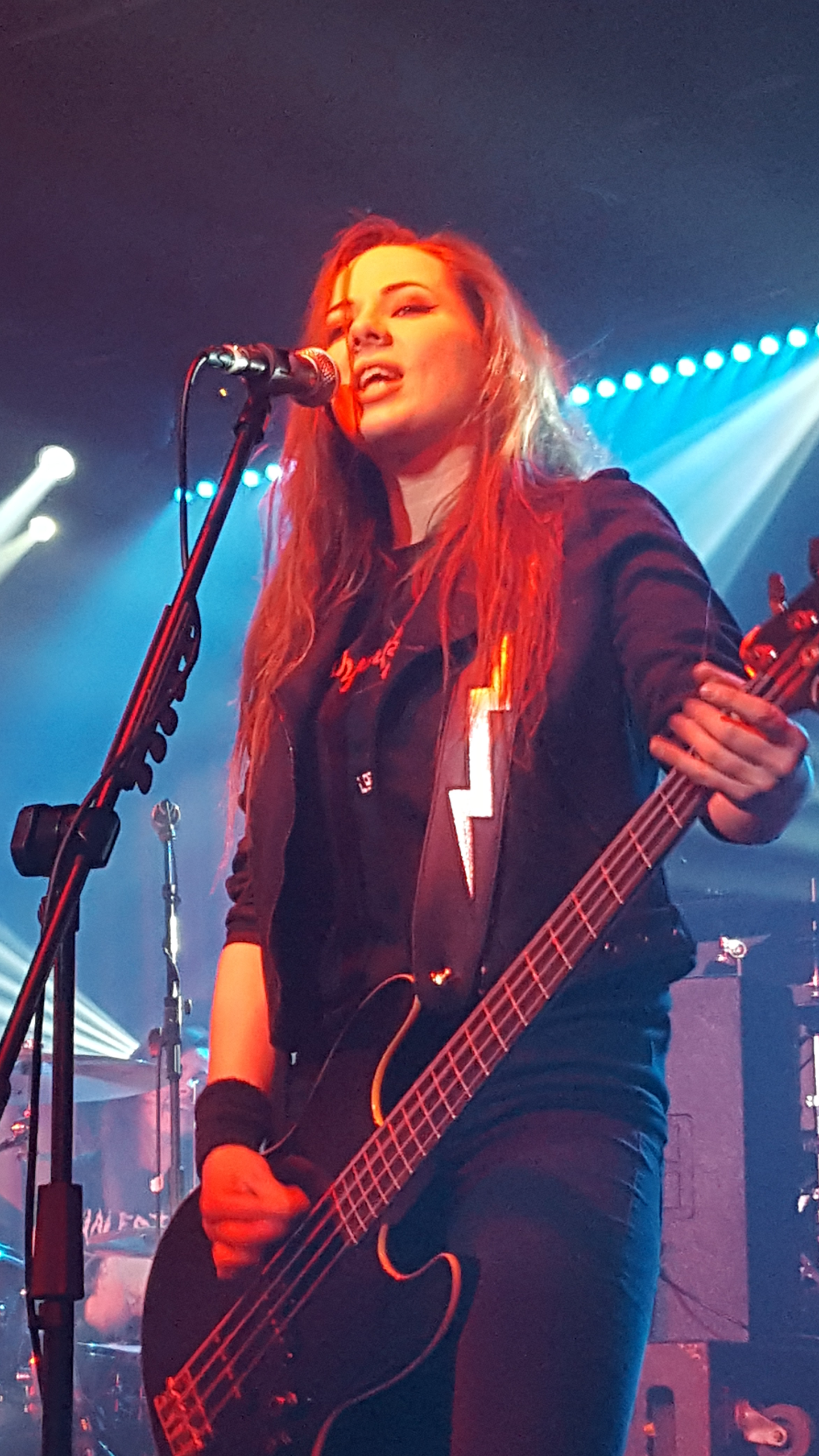 Heather McKay of The Amorettes performing in Sandford, 24 February 2018